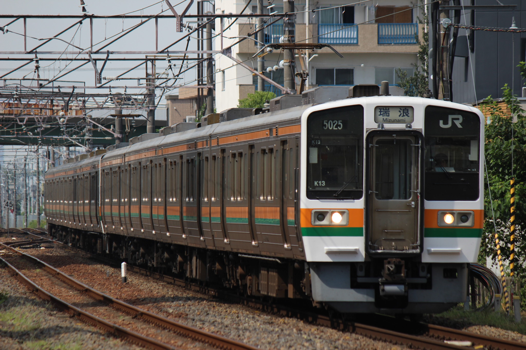 Two JR Central 211 series 4-car EMUs led by 211-5000 series set K13